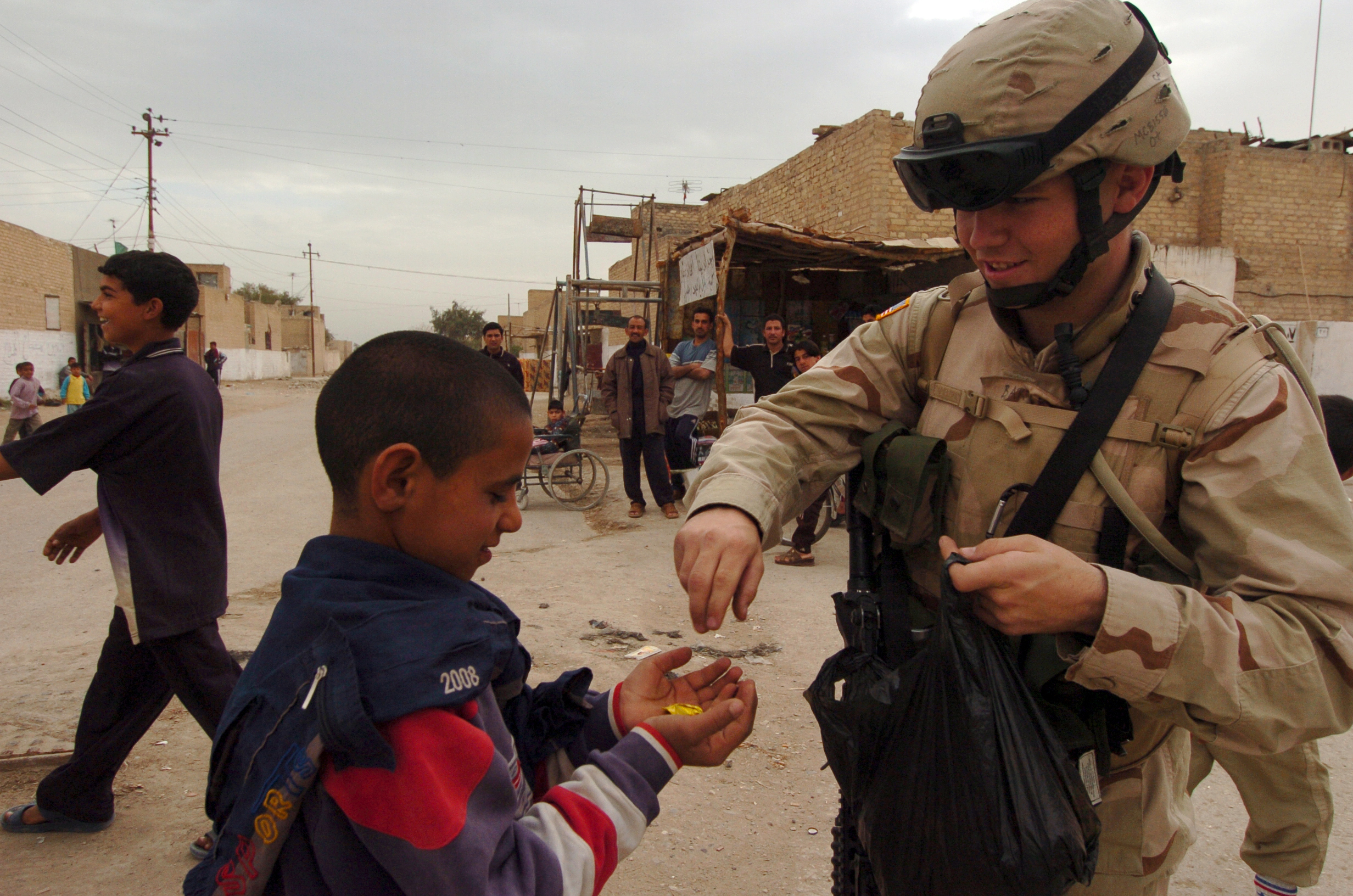 Iskandriyah, Iraq (Mar. 8, 2005) - A U.S. Army Soldier assigned to 155BCT, Charlie Company, National Guard Unit from Tupelo, Miss., hands out candy to local children as he conducts a presence patrol through the neighborhoods of Iskandriyah, Iraq. These patrols are to maintain community relations and to show a presence of security. U.S. Navy photo by Photographer's Mate 1st Class Brien Aho (RELEASED)